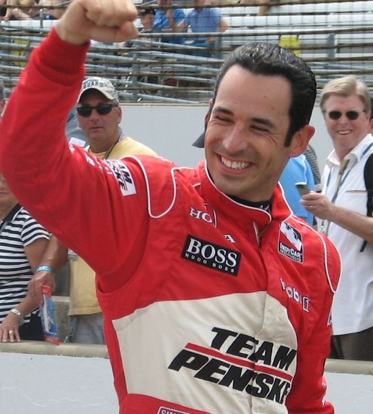 Hélio Castroneves at the Indianapolis Motor Speedway for Miller Lite Carb Day for the 2009 Indianapolis 500.